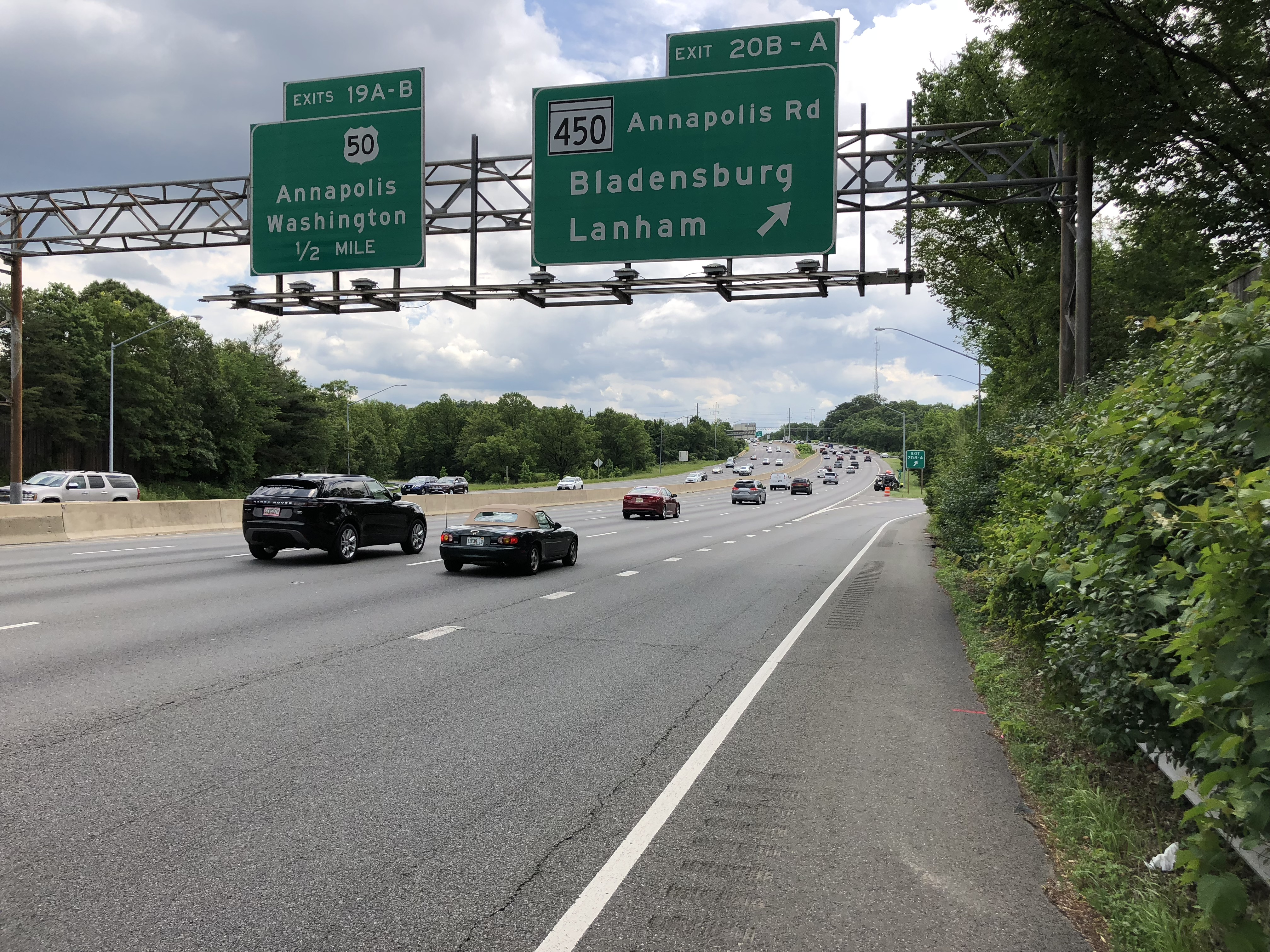 View south along the inner loop of the Capital Beltway (Interstate 95 and Interstate 495) at Exit 20 (Maryland State Route 450/Annapolis Road, Bladensburg, Lanham) in New Carrollton, Prince George's County, Maryland